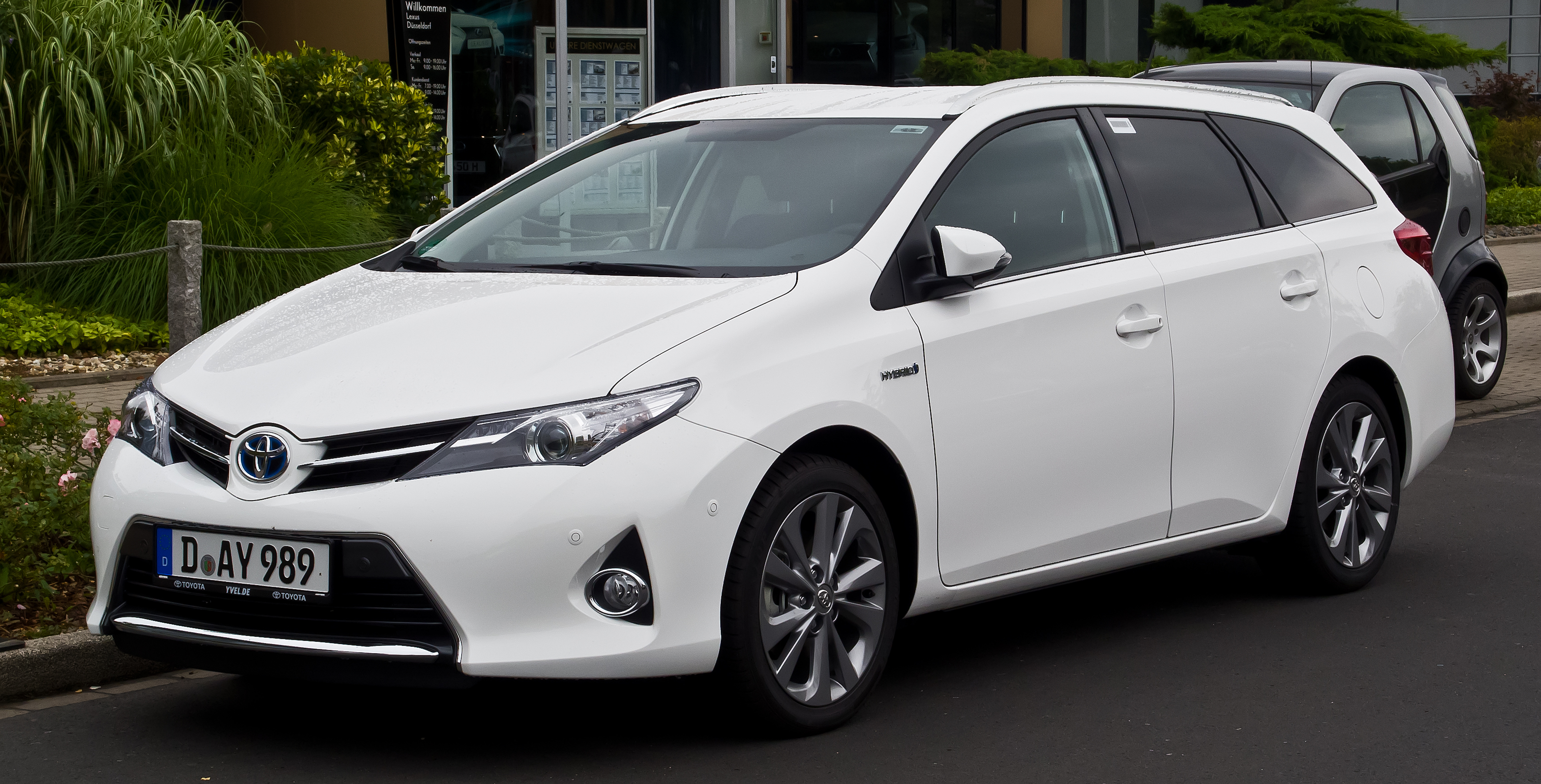 Toyota Auris Touring Sports Hybrid Executive (II)